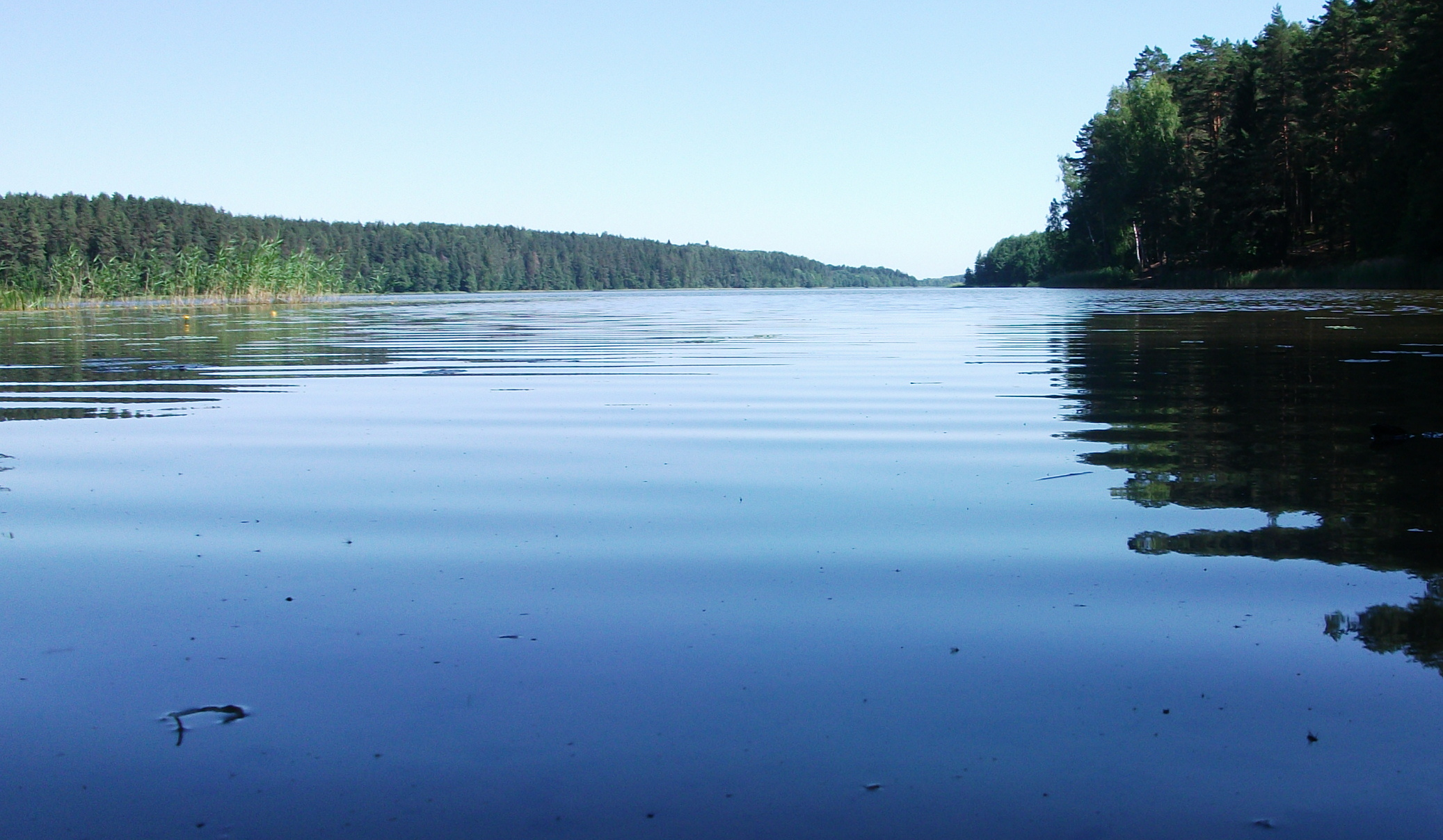 Vechalle Lake, Ušačy District, Belarus